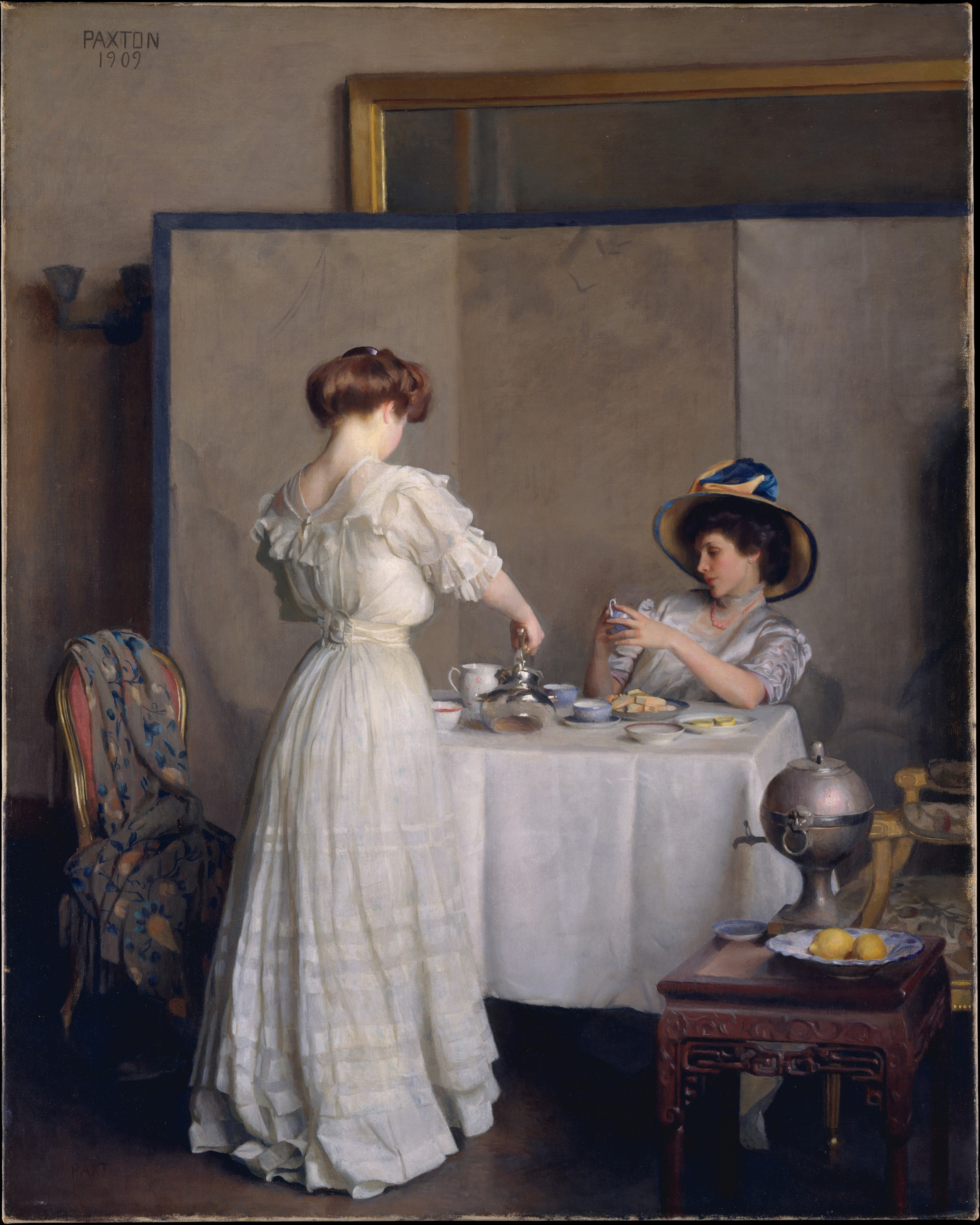 William McGregor Paxton, Tea Leaves, oil on canvas, 1909, Metropolitan Museum of Art